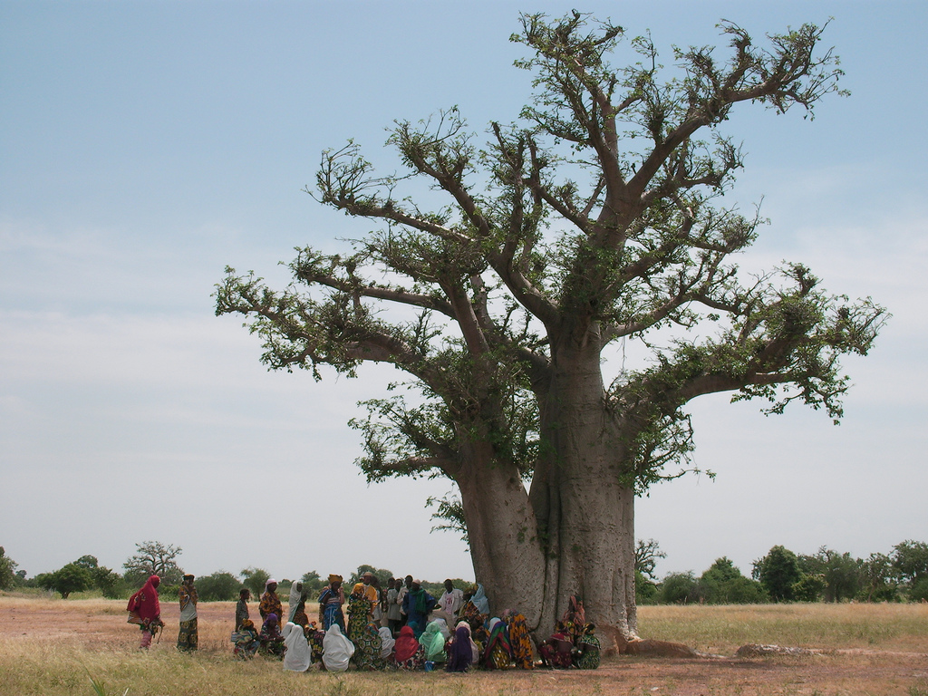 The women who were to receive the goats met under this tree by the school at Pito. Unfortunately not much shade from this tree.